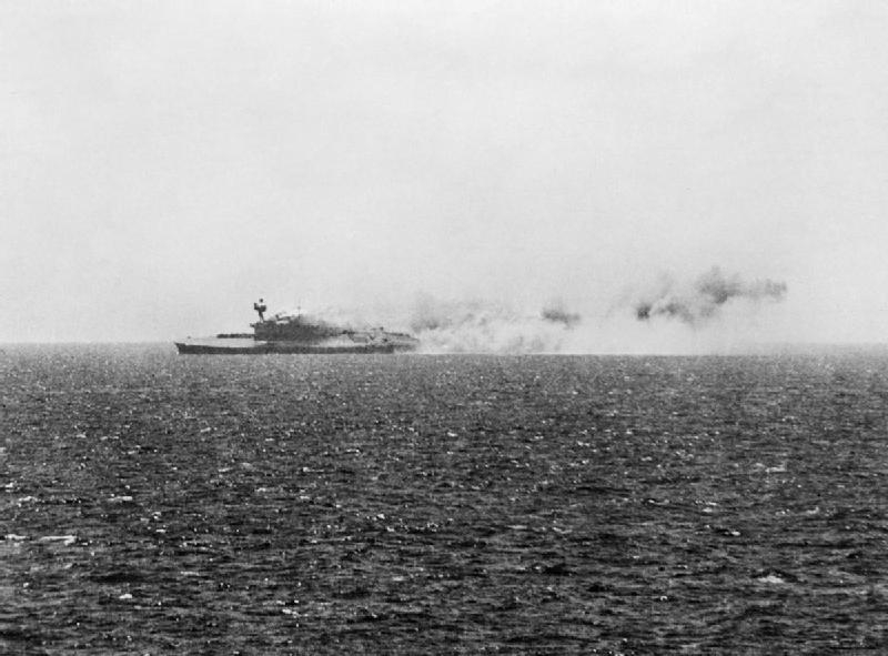 The Royal Navy aircraft carrier HMS Eagle sinking after being torpedoed by the German submarine U-73, 11 August 1942. Eagle took part in operation "Pedestal", covering a convoy to Malta.